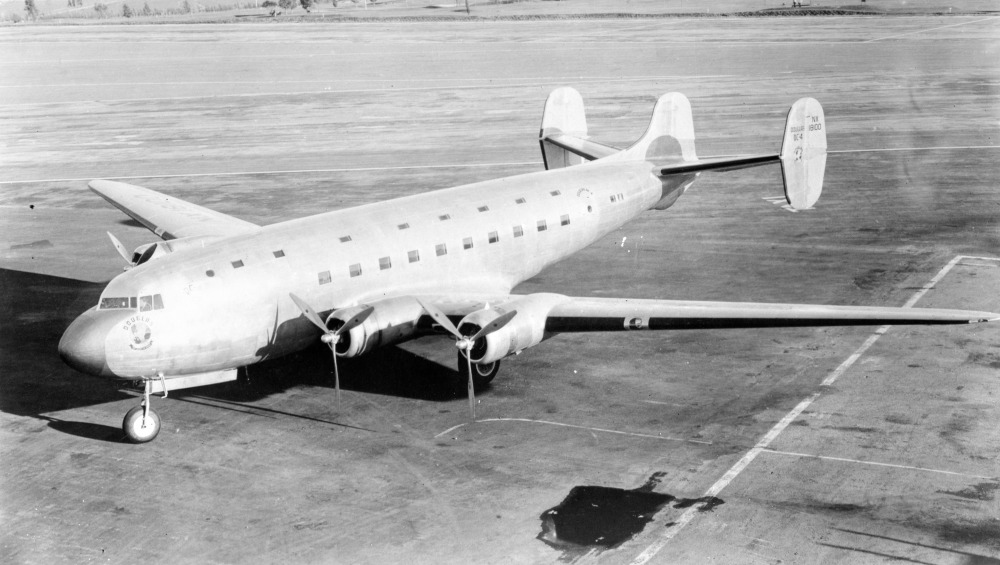 PictionID:40972987 - Title:Douglas DC-4E NX18100 Santa Monica - Catalog:15_002783 - Filename:15_002783.tif - Image from the Charles Daniels Photo Collection album "US Army Aircraft."----PLEASE TAG this image with any information you know about it, so that we can permanently store this data with the original image file in our Digital Asset Management System.----SOURCE INSTITUTION: San Diego Air and Space Museum Archive